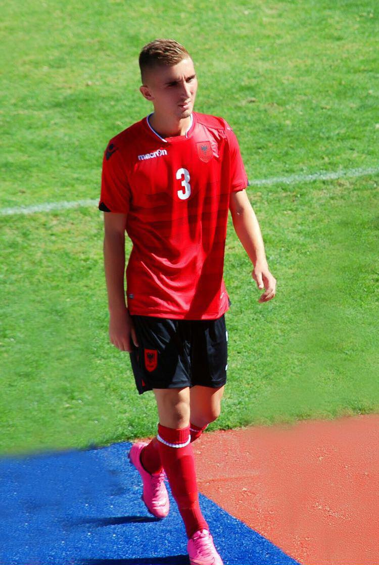 Granuel Lika when played for Albanian National U-19 team.